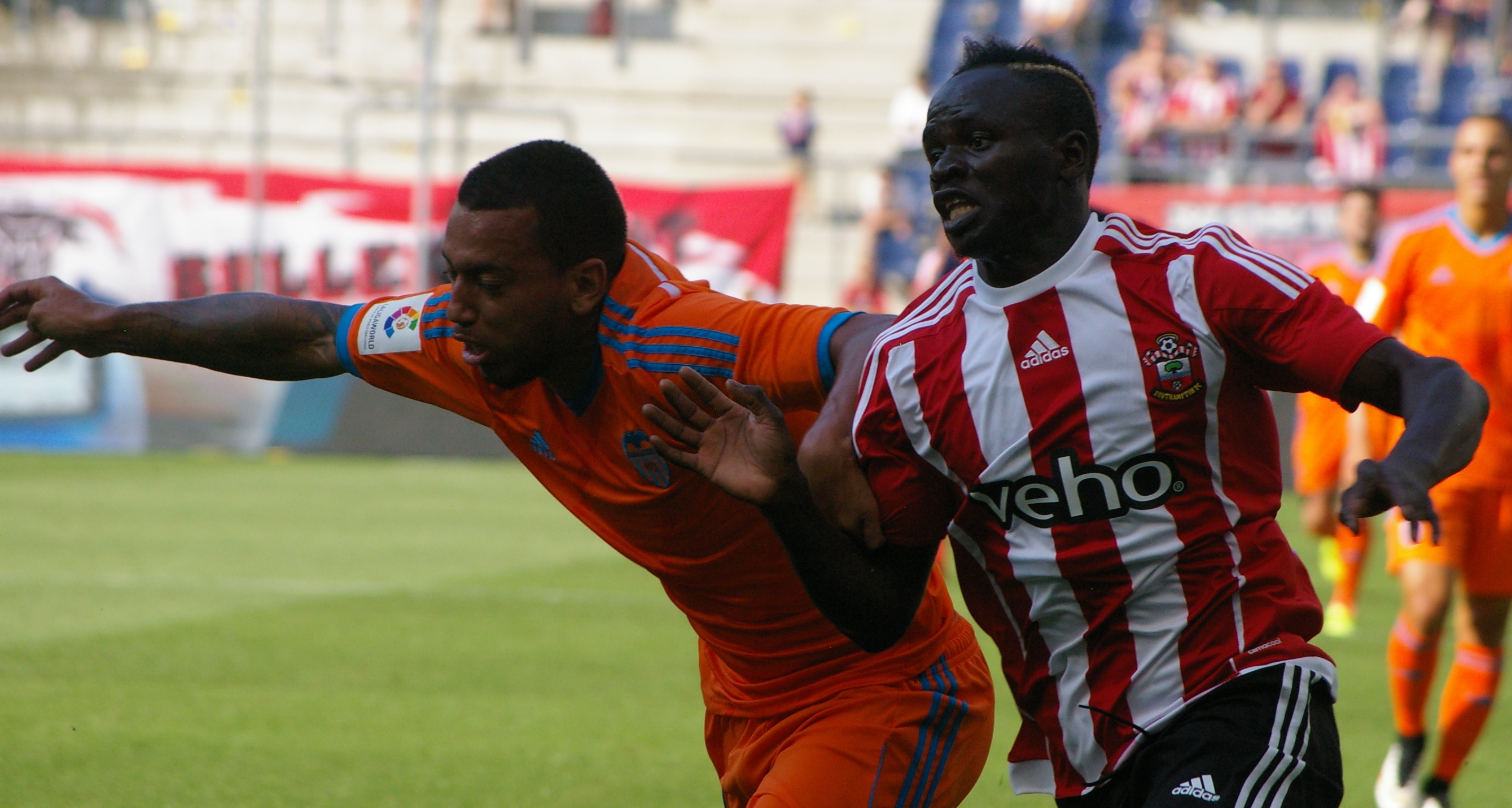 tournament with SV Werder Bremen, FC Southampton, Red Bull Salzburg and Valencia CF preseason friendly matches